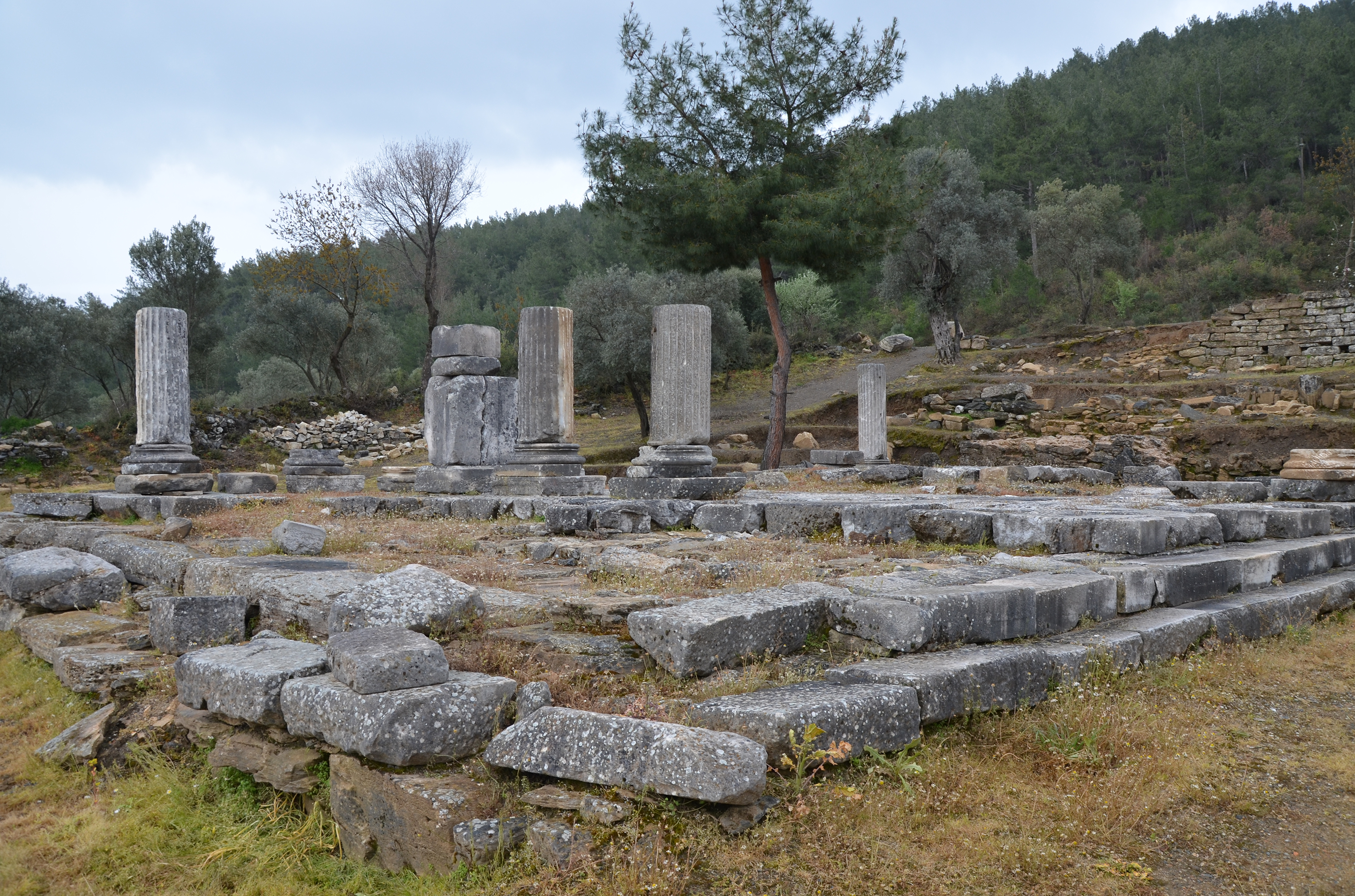 Peripteral temple built in the Ionic order, it is situated on the upper terrace and was probably dedicated to the Roman Emperor (possibly Augustus), early imperial period, Stratonicea, Caria, Turkey